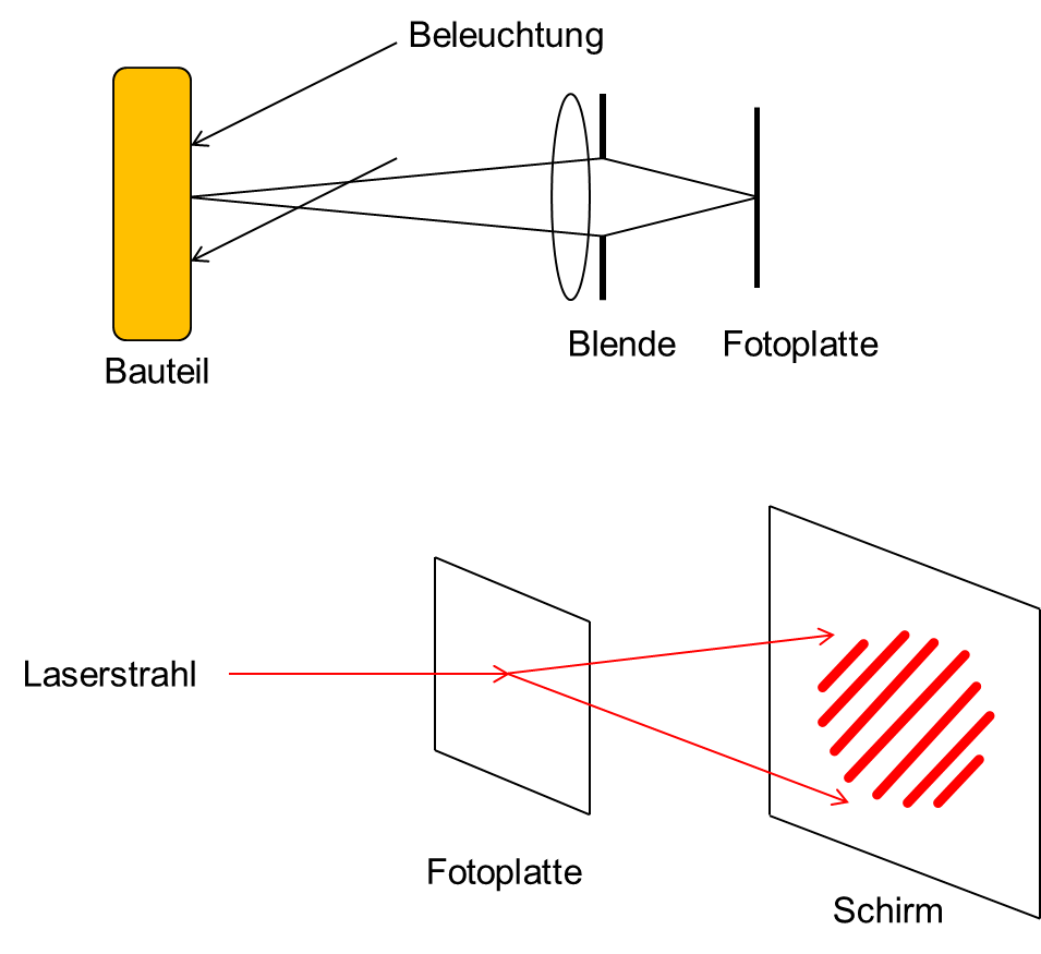 principle of speckle photography